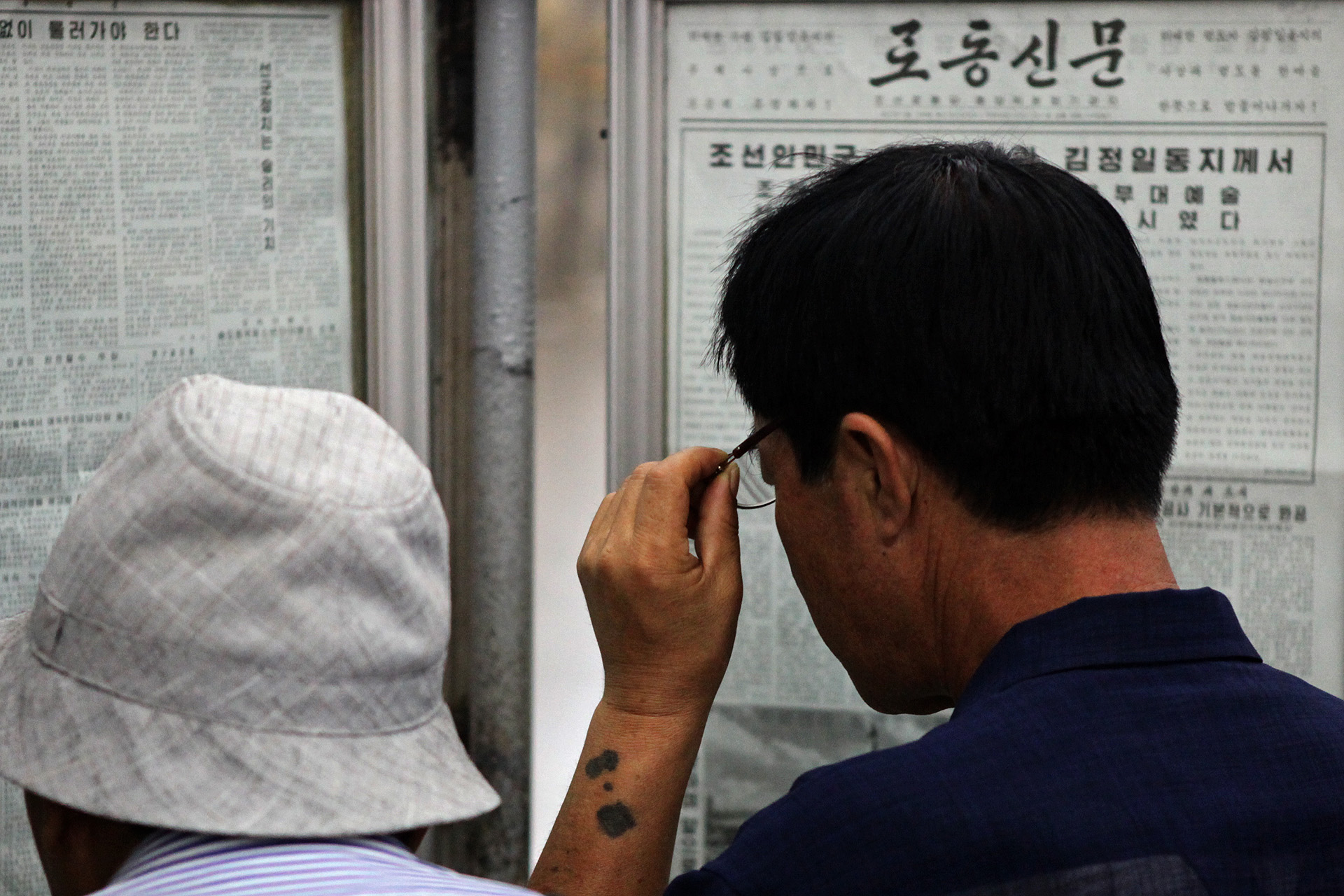 People reading Rodong Sinmun in the Pyongyang Metro system